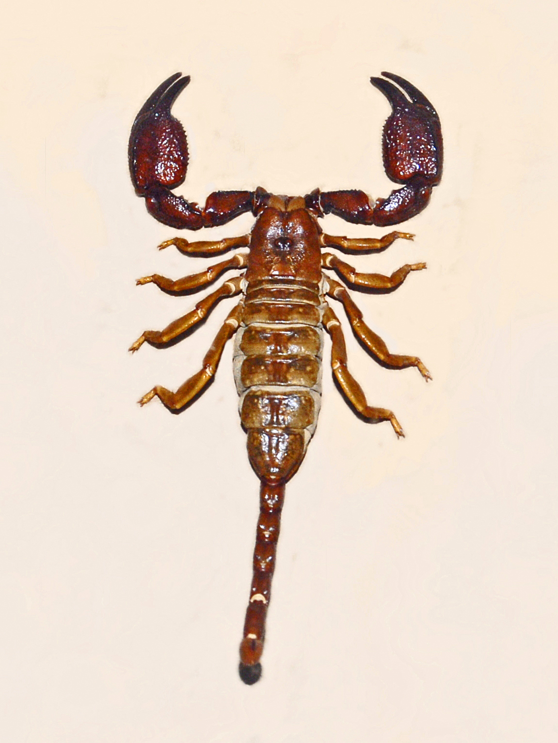 Opisthacanthus africanus from theDemocratic Republic of the Congo. Museum specimen